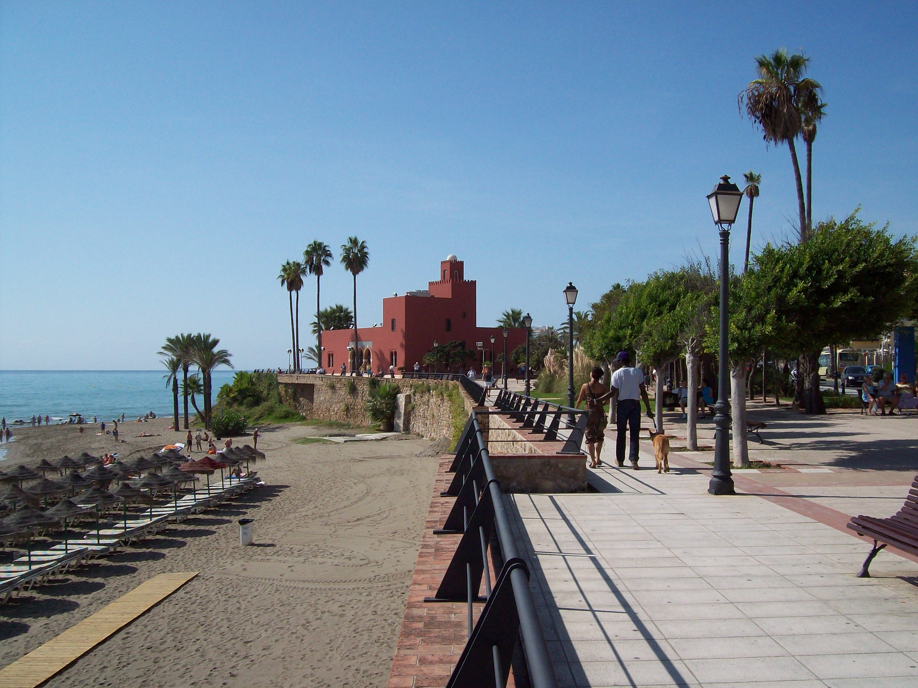 Cultural Centre "Bil Bil Castle" and playa de Santa Ana, Benalmádena, Málaga, Spain